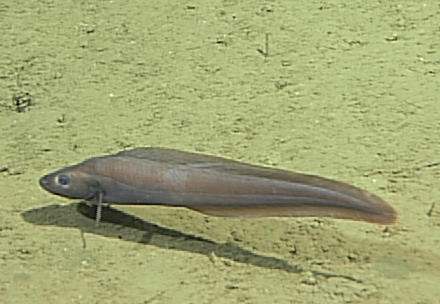 Two-line eelpout (Bothrocara brunneum) on the Davidson Seamount at 3228 meters depth.